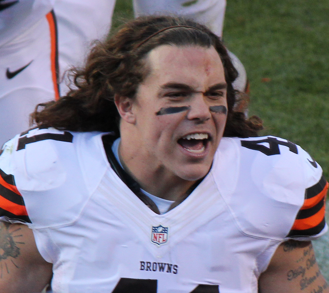 Ray Ventrone, a player on the National Football League.